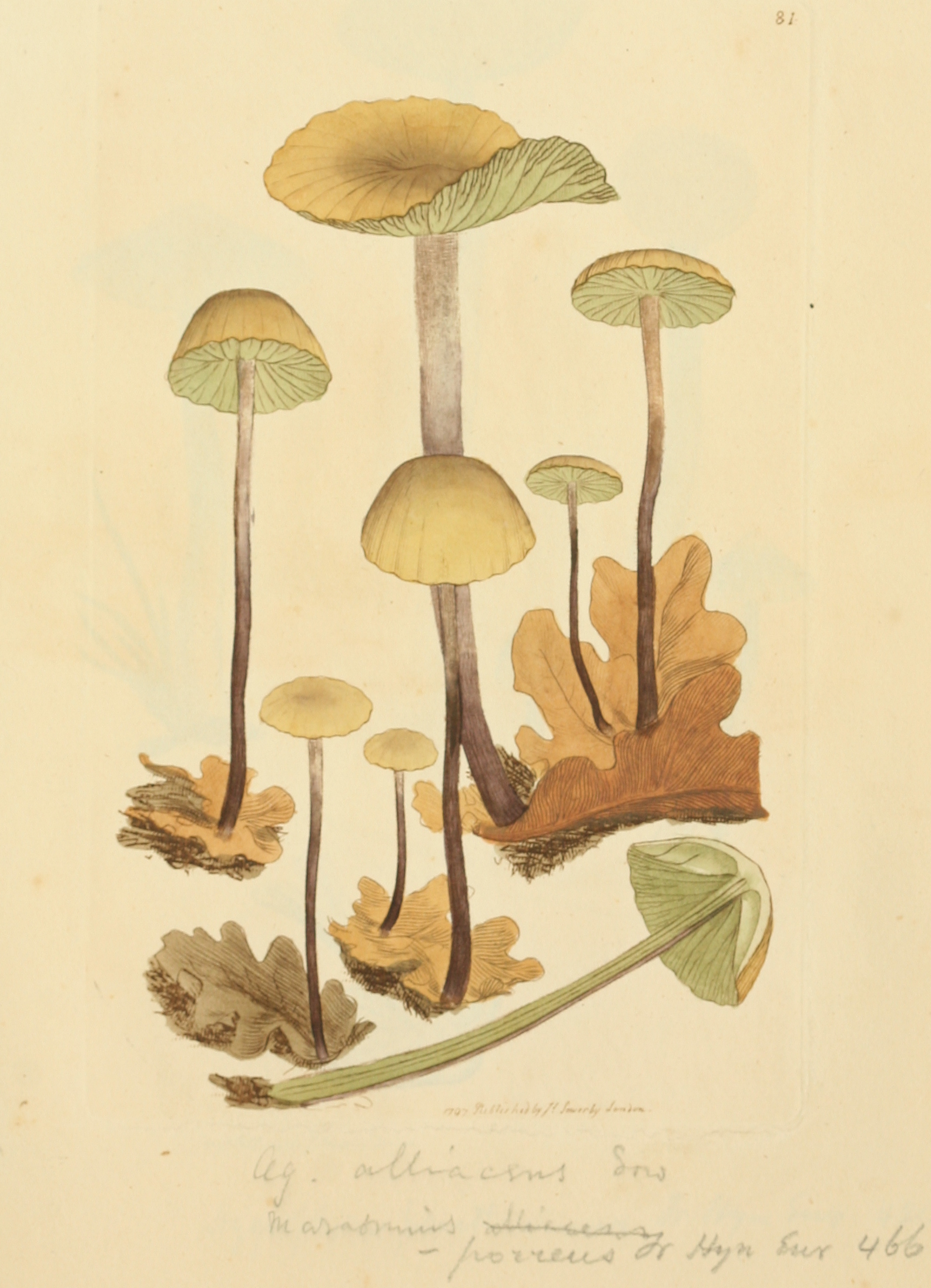 This is a plate from James Sowerby's Coloured Figures of English Fungi or Mushrooms.